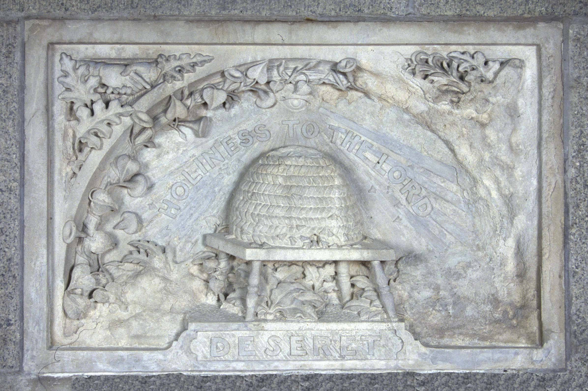 Commemorative Stone donated by the Utah Territory, in September 1853, to be used in the construction of the Washington Monument. The stone was quarried in Manti, Utah and William Ward, a Mormon pioneer artist, carved the stone into a symbol representing the provisional State of Deseret. The stone is located in the interior of the monument, at the 220 foot level.